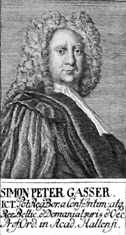 Simon Peter Gasser (1676-1745) german lawyer and economist.